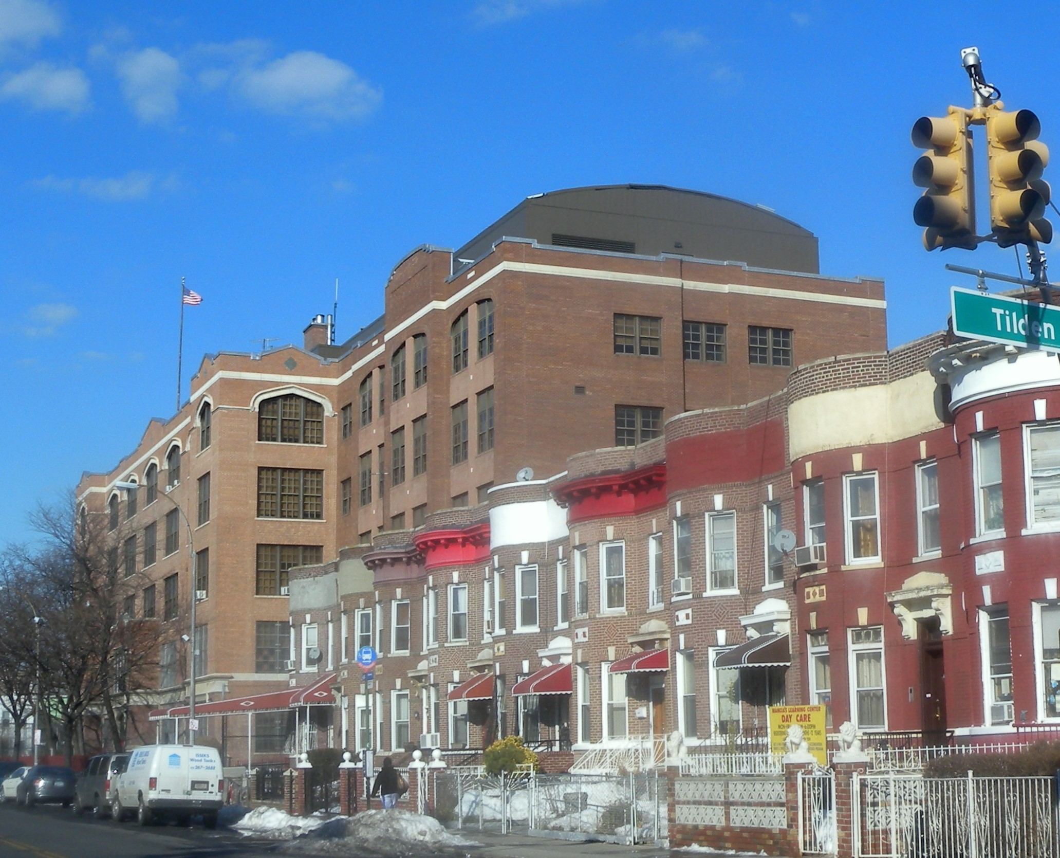 Looking north across Tilden Avenue along New York Avenue at PS 181 on a sunny afternoon.